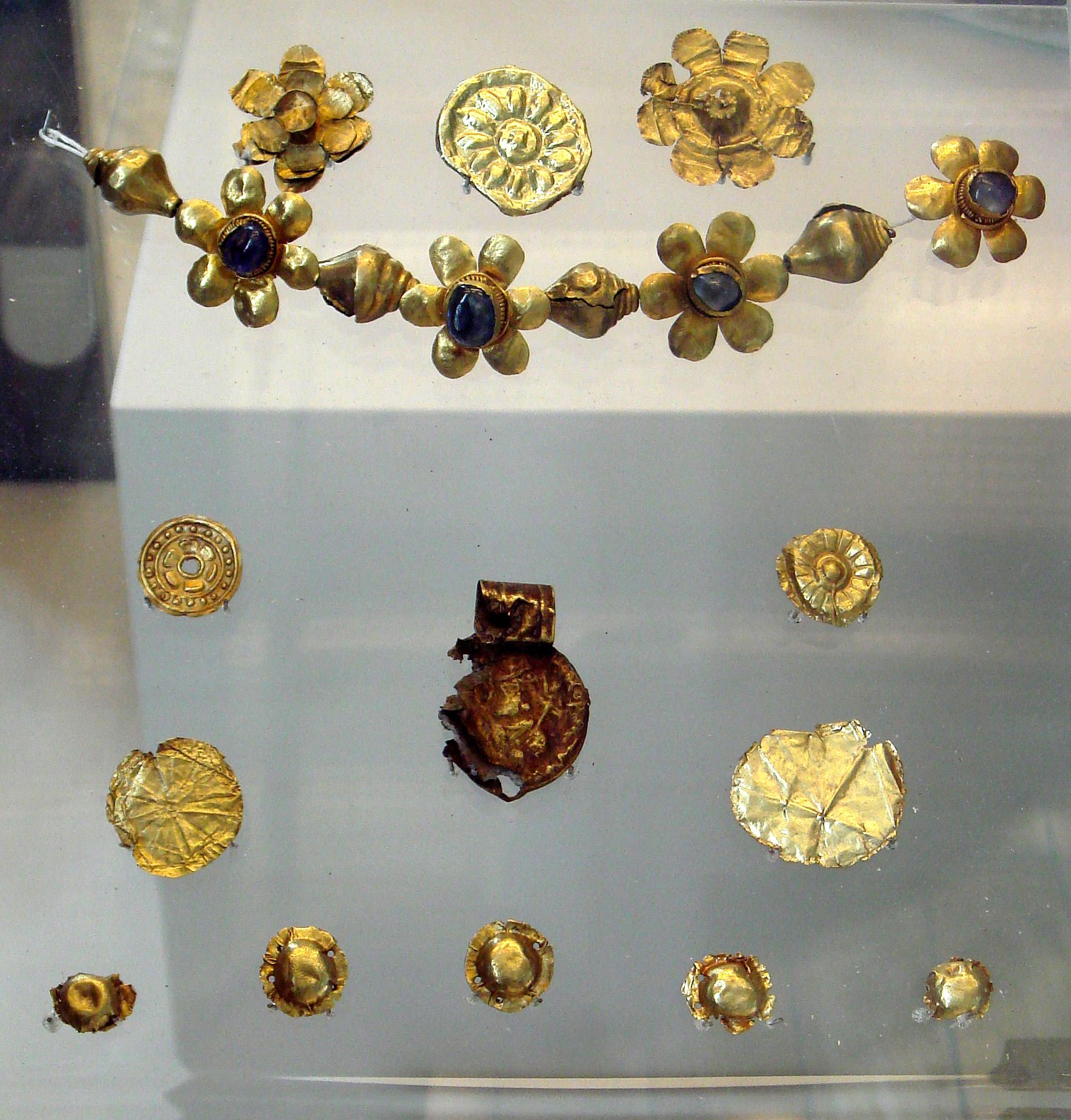 Offerings found in Bodh Gaya under the "Enlightment Throne of the Buddha", with a decorated coin of Huvishka